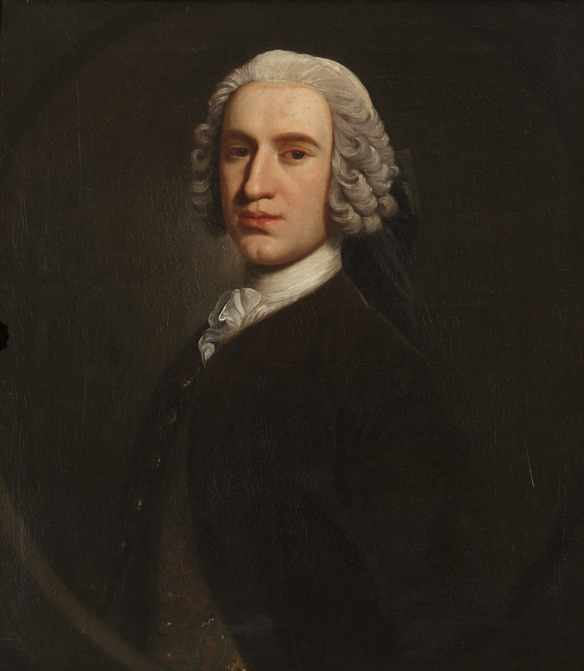 Portrait of Sir Lucius Christianus Lloyd (c.1710–1750), 3rd Baronet, of Milfield (or Maes-y-Felin), Cardiganshire, in the collection of the National Trust at Croft Castle, Herefordshire